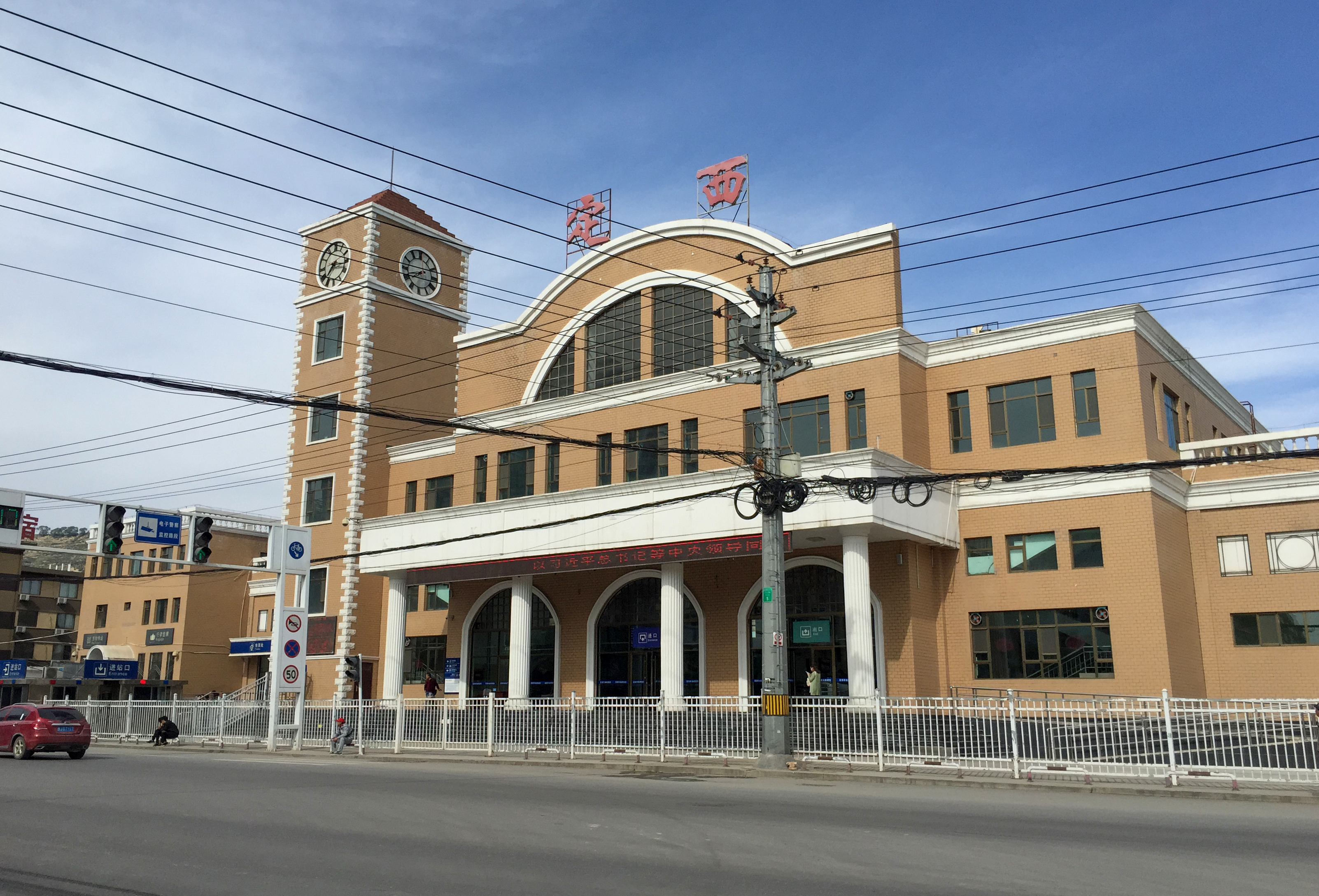 At a T-junction.